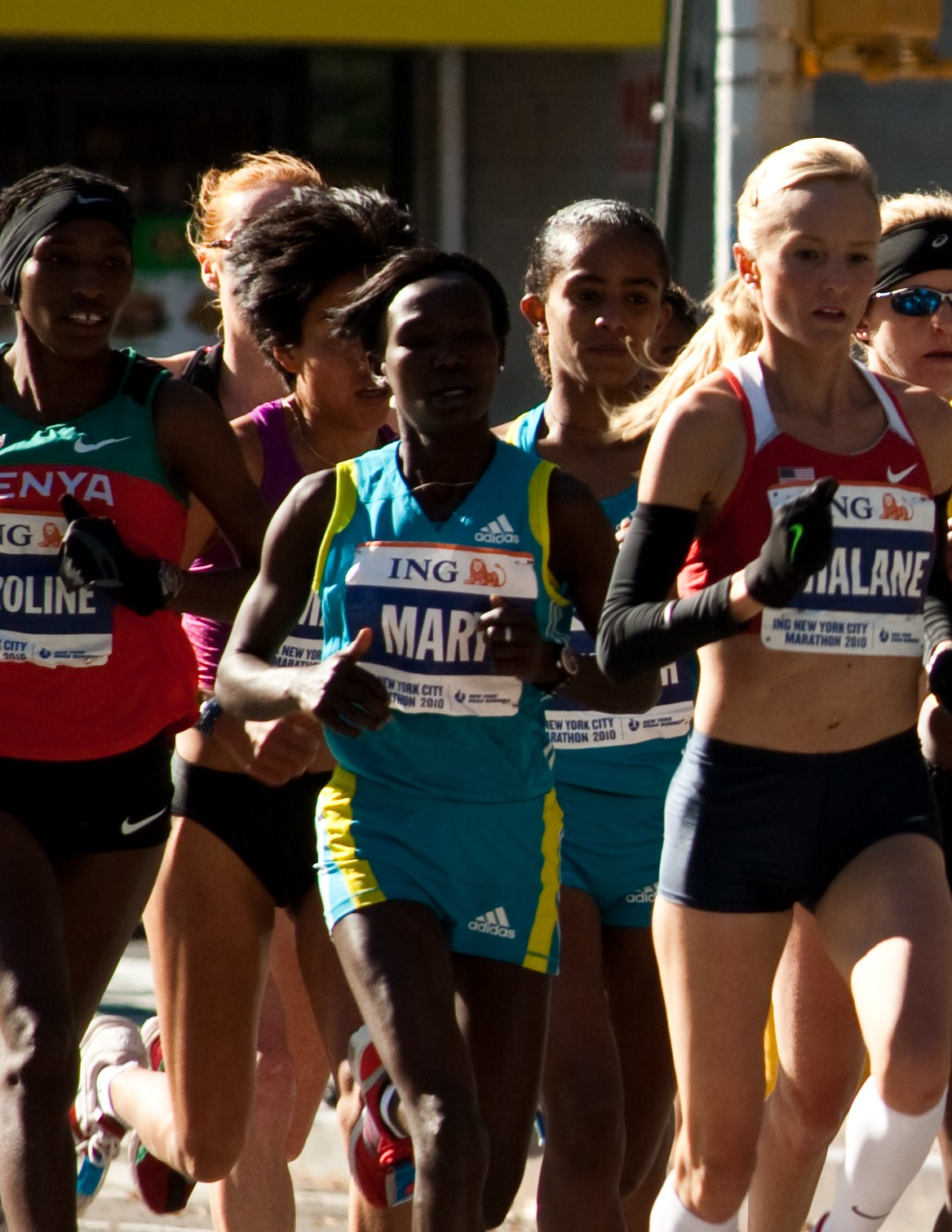 Women's leading pack at Mile 17 - Caroline Rotich (KEN), Mary Keitany (KEN), Shalane Flanagan (USA)